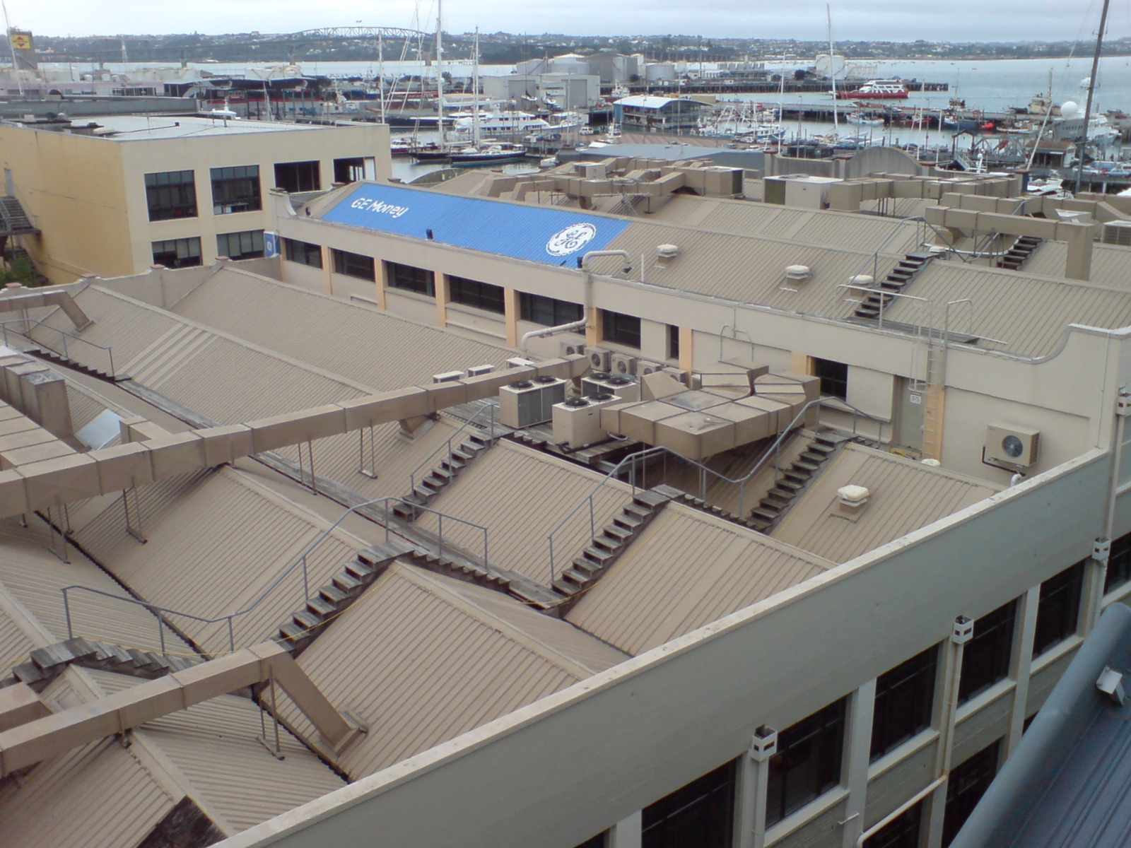 Plant (air conditioning, most likely) on top of an industrial / commercial building in the Auckland CBD, Auckland City, New Zealand.